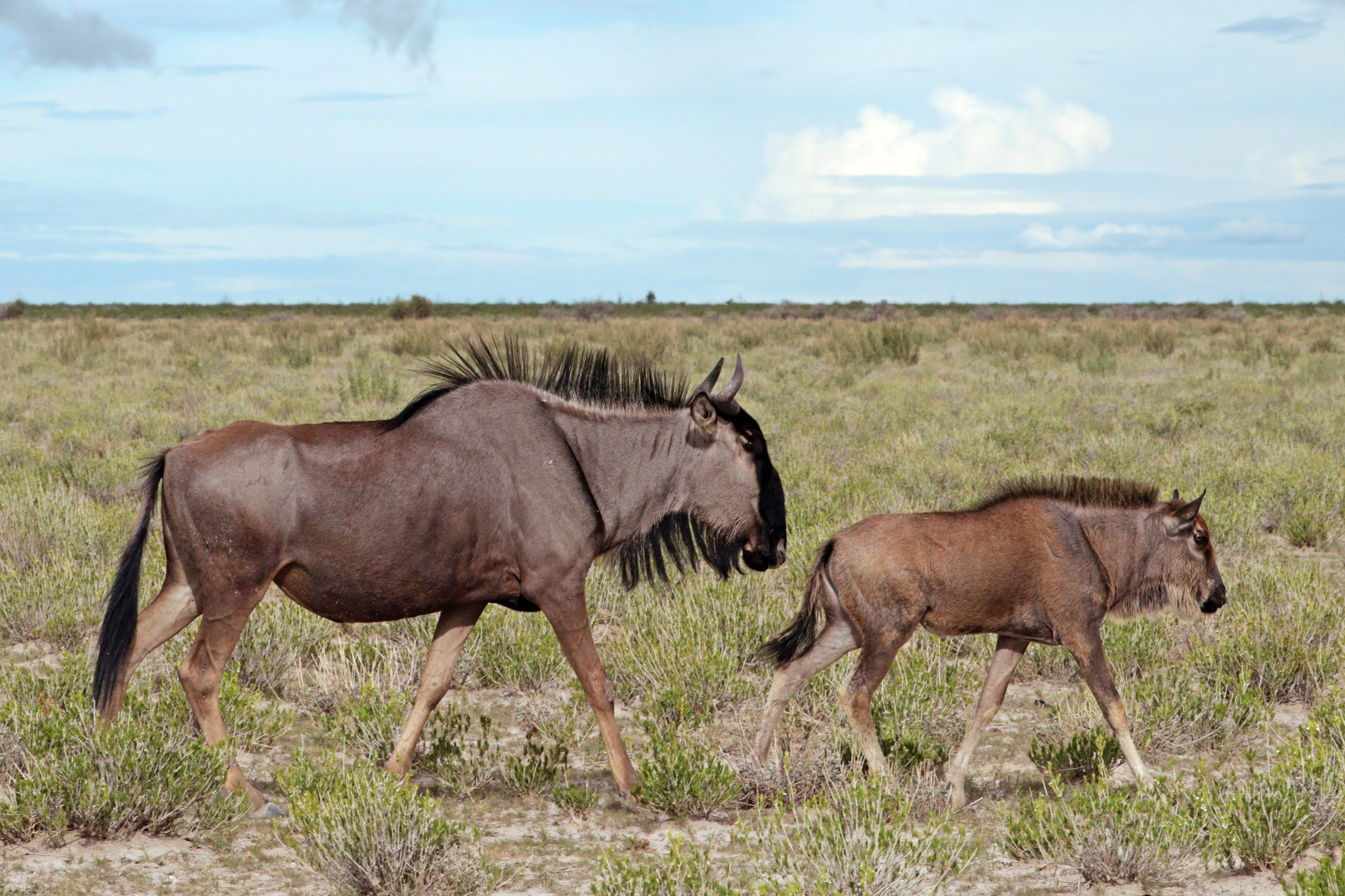 Blue wildebeest (Connochaetes taurinus taurinus) female and calf, Etosha National Park, Namibia